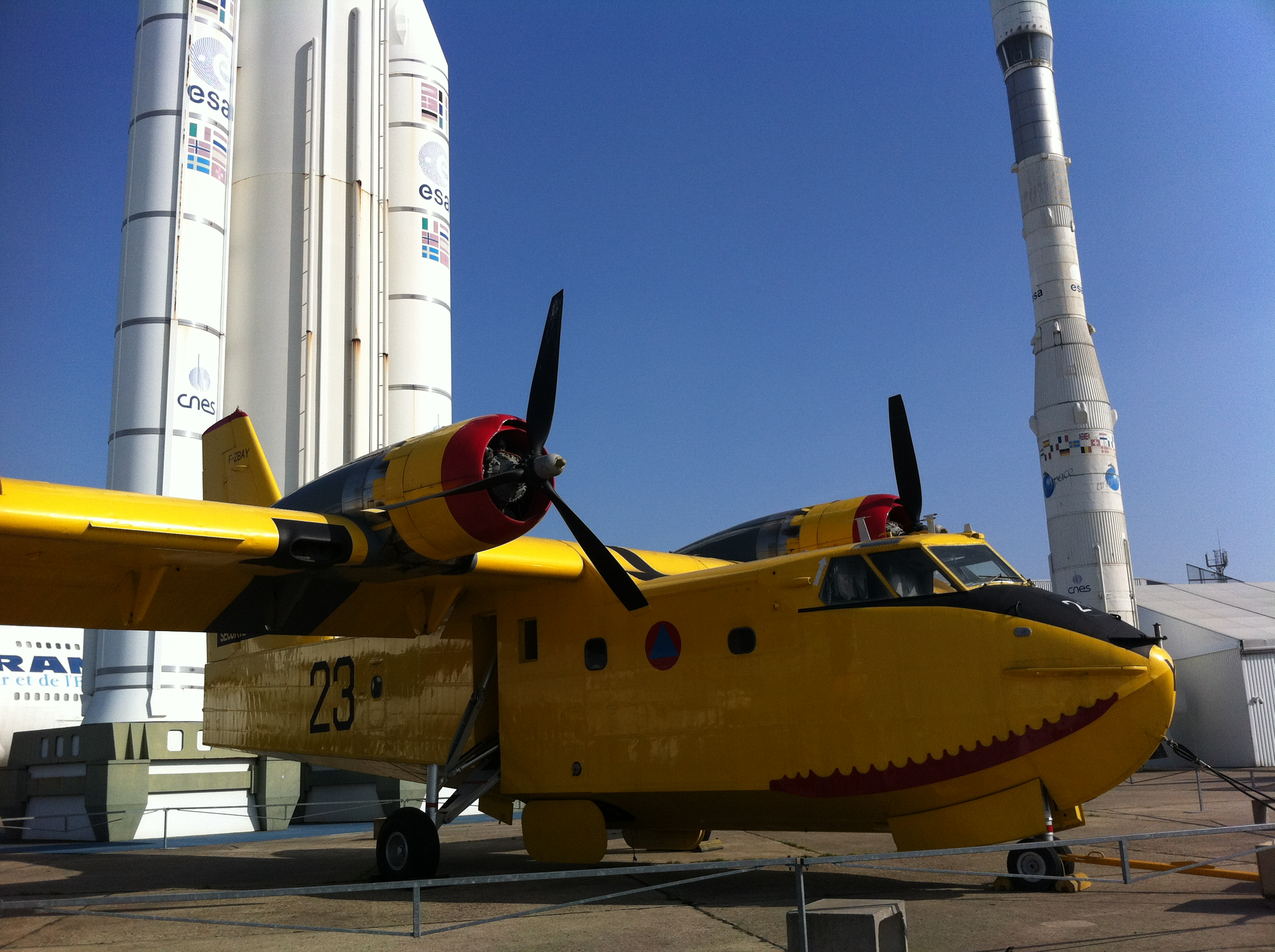 Canadair, Le Bourget airport tarmac, Paris